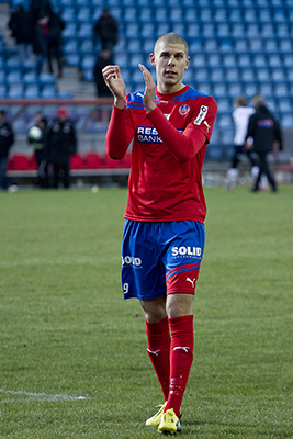 Robin Simovic applauding the fans after the debut match against Gefle IF